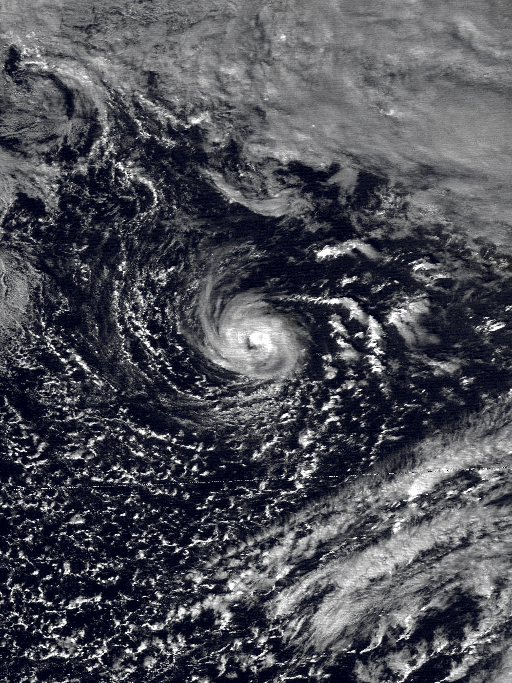 Hurricane Karl at peak intensity in the northern Atlantic Ocean on November 26, 1980